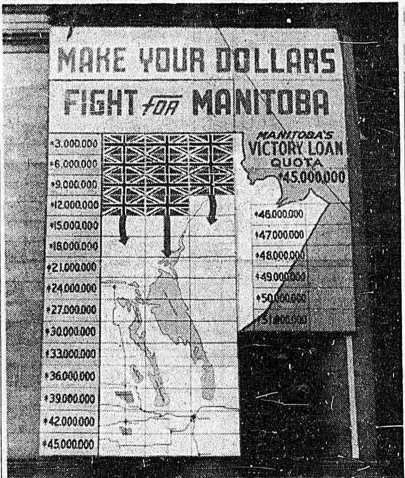 Victory Loan map of Manitoba. 1942.